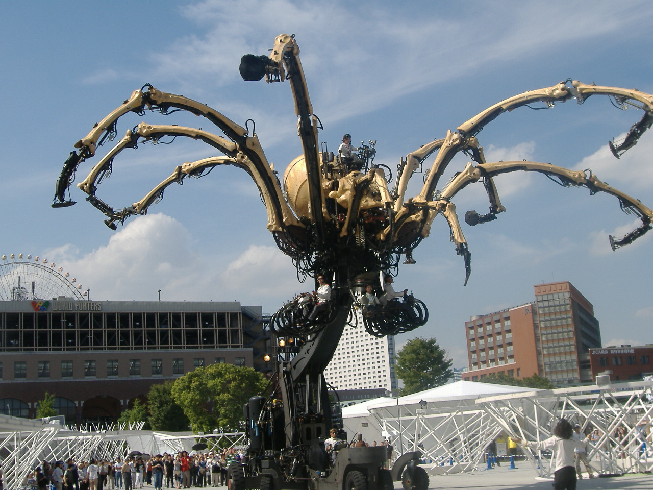 La Machine(A Grand Exposition for Yokohama's 150th Year)Yokohama, Japan